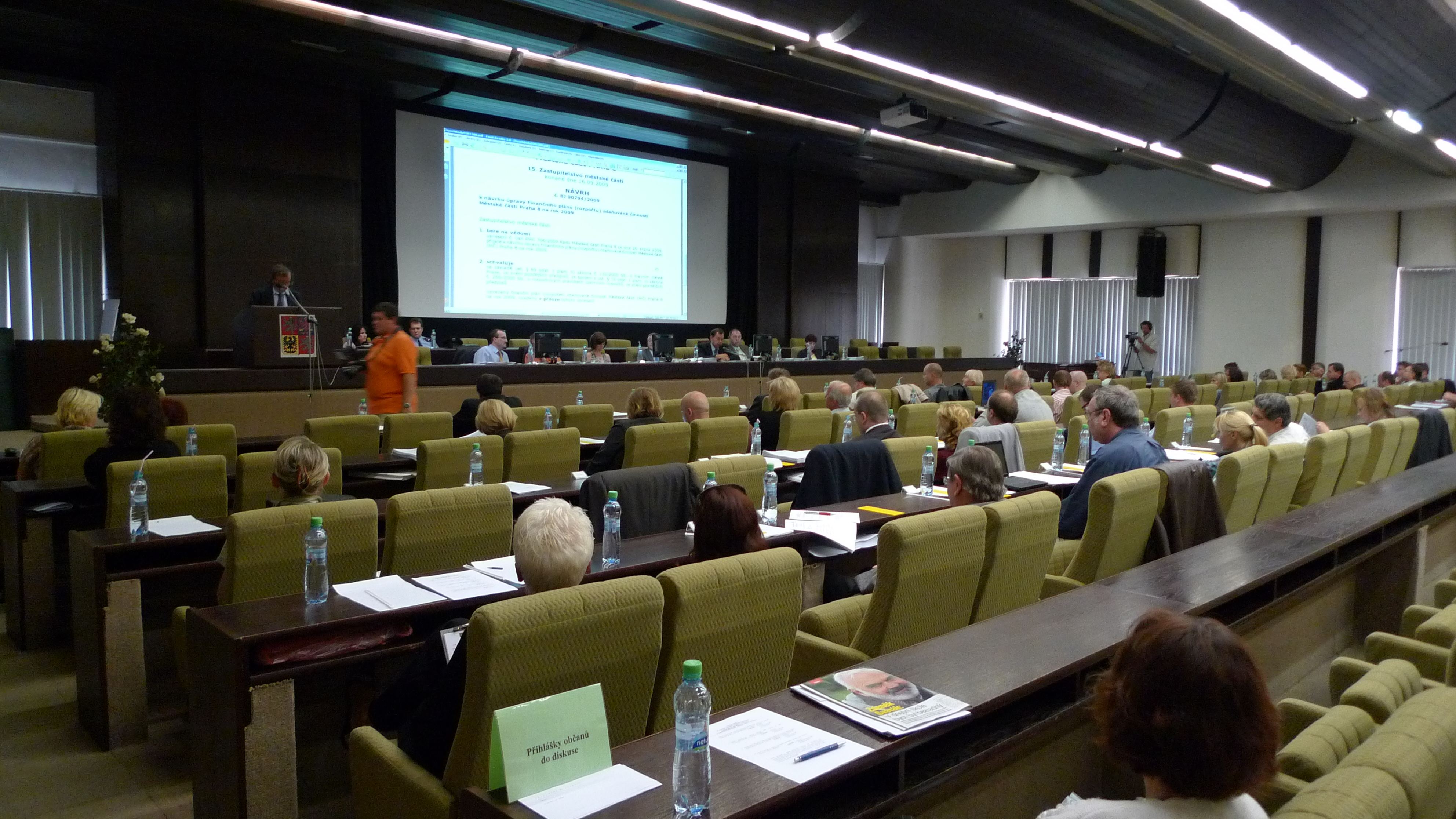 Town hall of Prague 8 (Bílý dům)